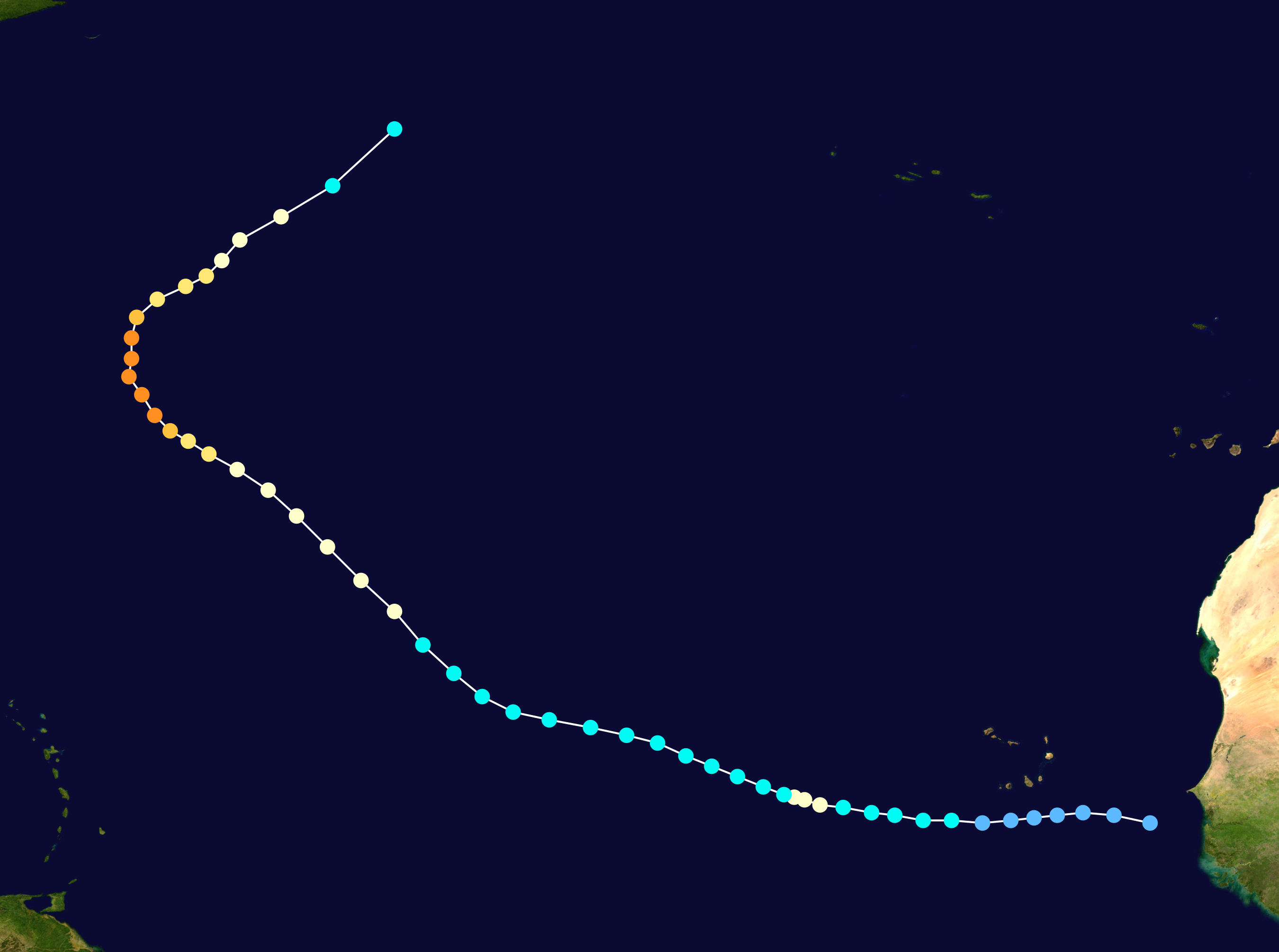 Track map of Hurricane Cindy of the 1999 Atlantic hurricane season. The points show the location of the storm at 6-hour intervals. The colour represents the storm's maximum sustained wind speeds as classified in the Saffir–Simpson scale (see below), and the shape of the data points represent the nature of the storm, according to the legend below. Saffir–Simpson scale Tropical depression≤38 mph≤62 km/h Category 3111–129 mph178–208 km/h Tropical storm39–73 mph63–118 km/h Category 4130–156 mph209–251 km/h Category 174–95 mph119–153 km/h Category 5≥157 mph≥252 km/h Category 296–110 mph154–177 km/h Unknown Storm type Tropical cyclone Subtropical cyclone Extratropical cyclone / Remnant low / Tropical disturbance / Monsoon depression